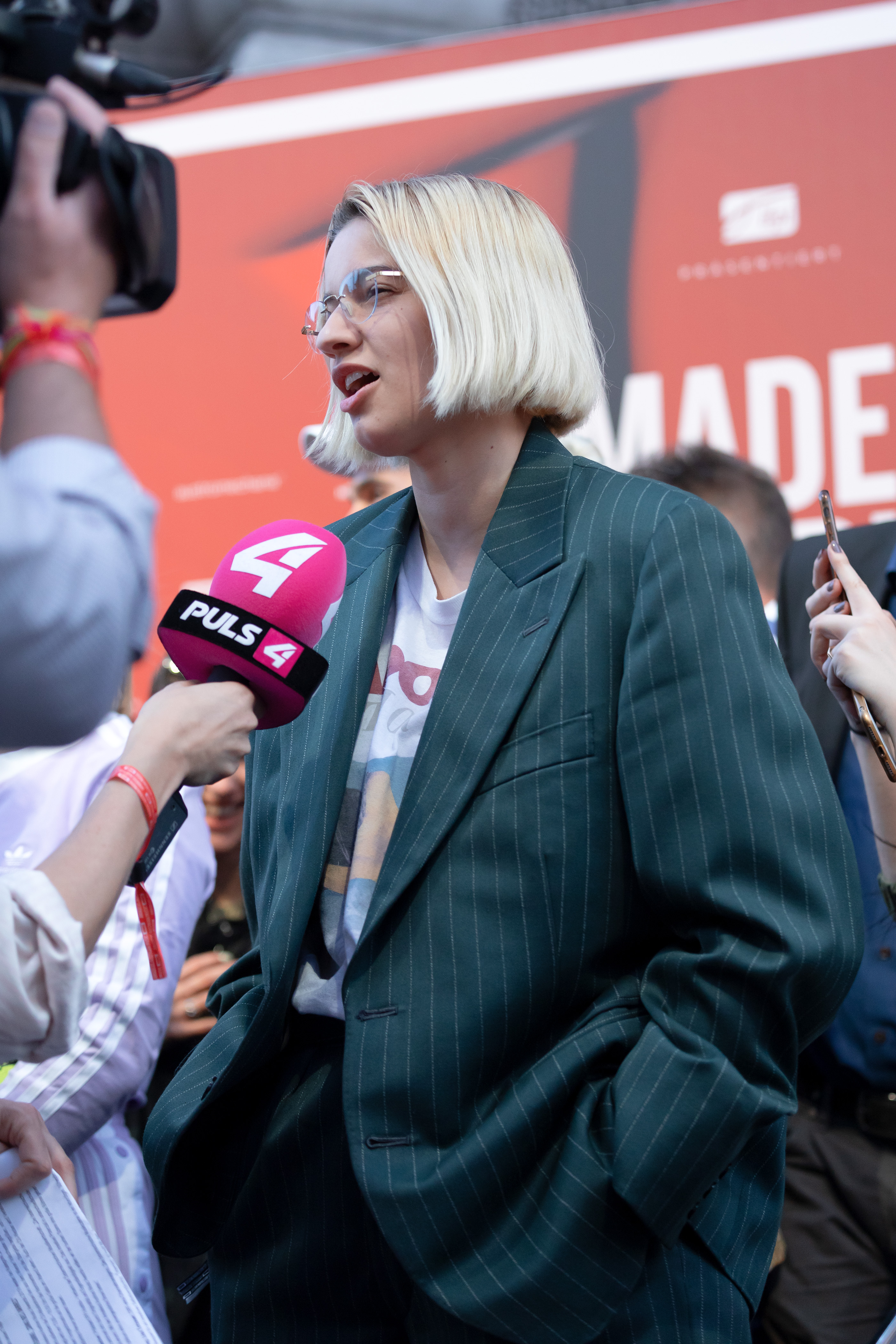 Mavi Phoenix at the Amadeus Austrian Music Award 2019 at Volkstheater in Vienna.